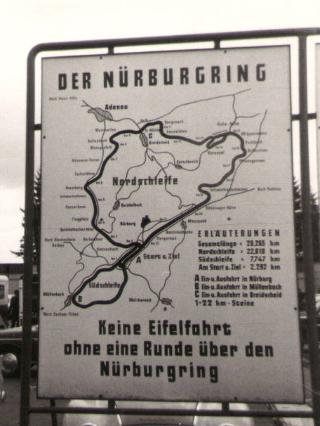 Photograph taken by "Sports Fan" in 1964 at the German Grand Prix. Placed in the public domain for free distribtion. Copyright free.